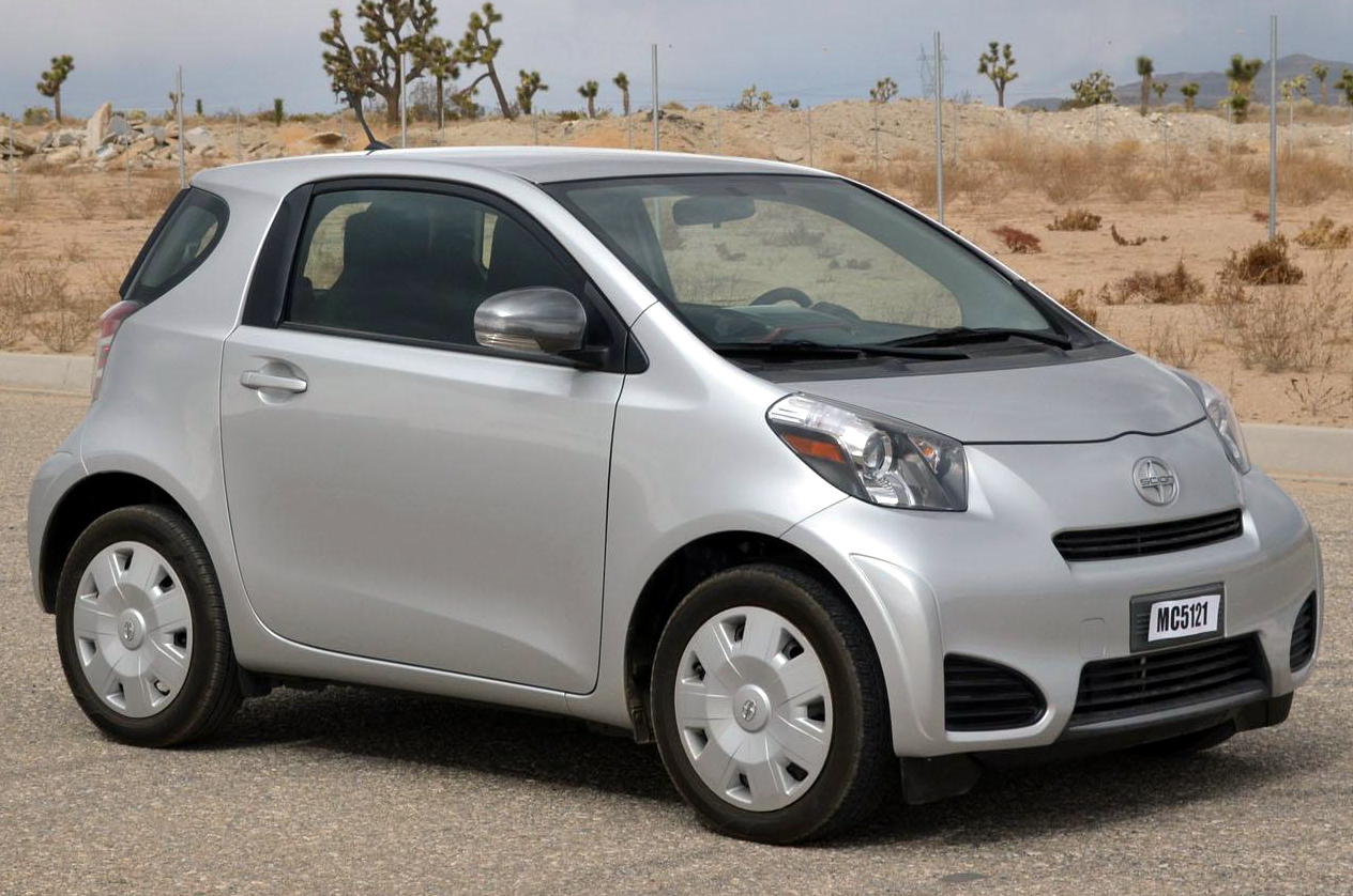 2012 Scion iQ photographed in USA.